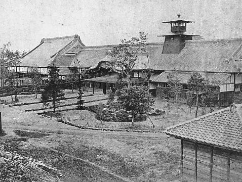 Gunma Prefectural Office in the Meiji era